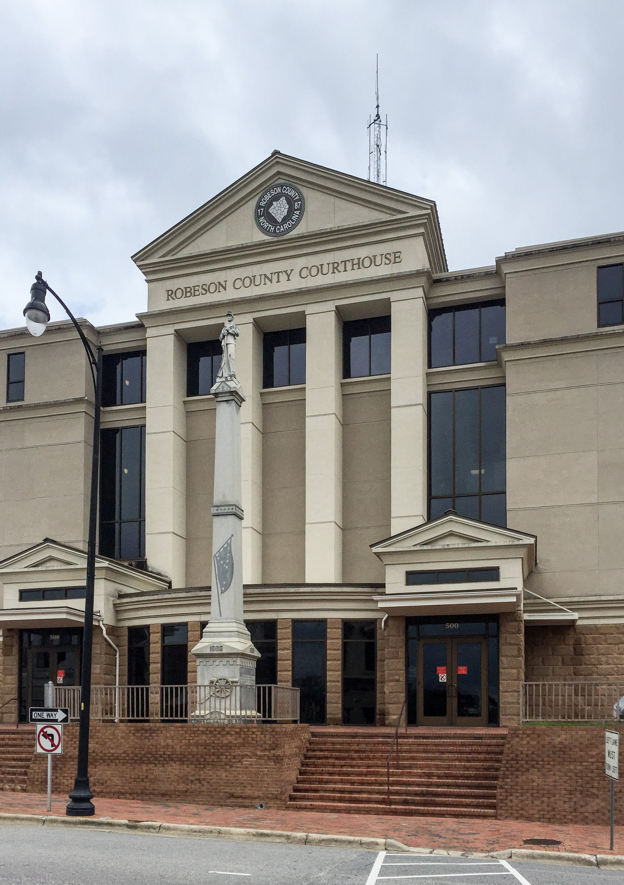 Robeson County Courthouse with Civil War memorial, Lumberton NC